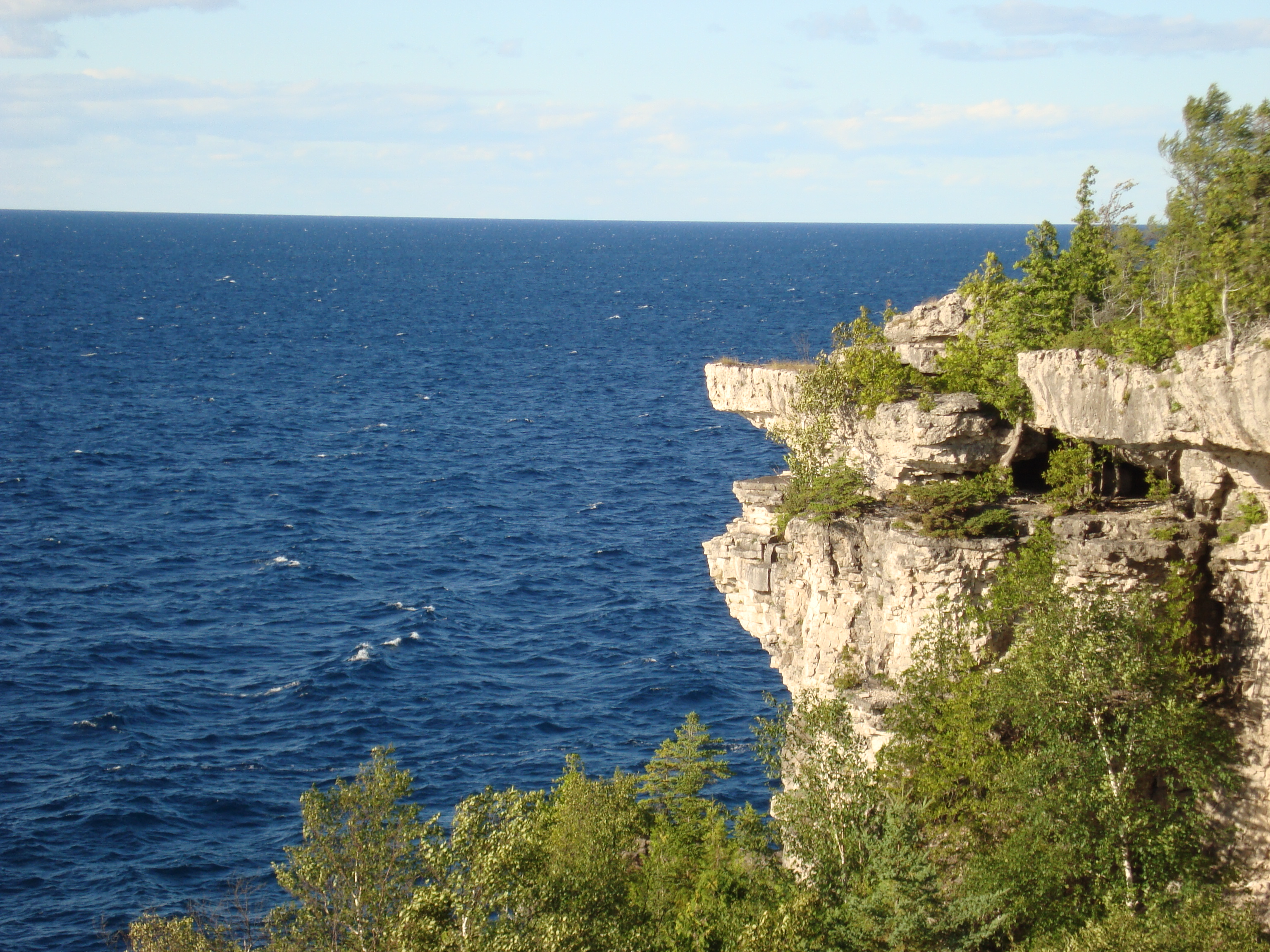 Bruce Peninsula National Park, Ontario